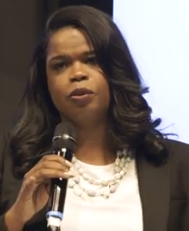 Kim Foxx